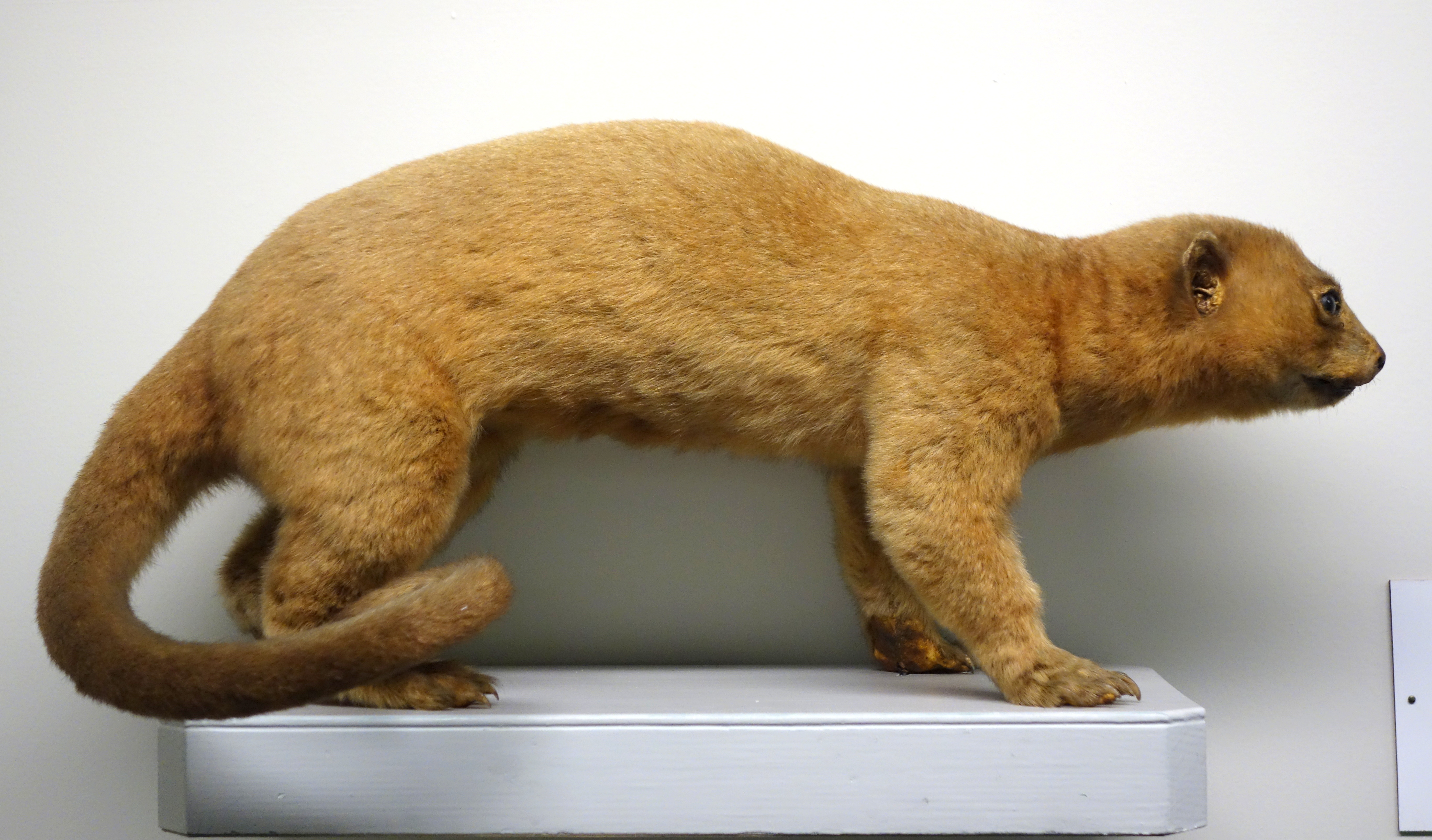 Exhibit in the Museo Civico di Storia Naturale di Genova, Via Brigata Liguria, 9, 16121, Genoa, Italy.